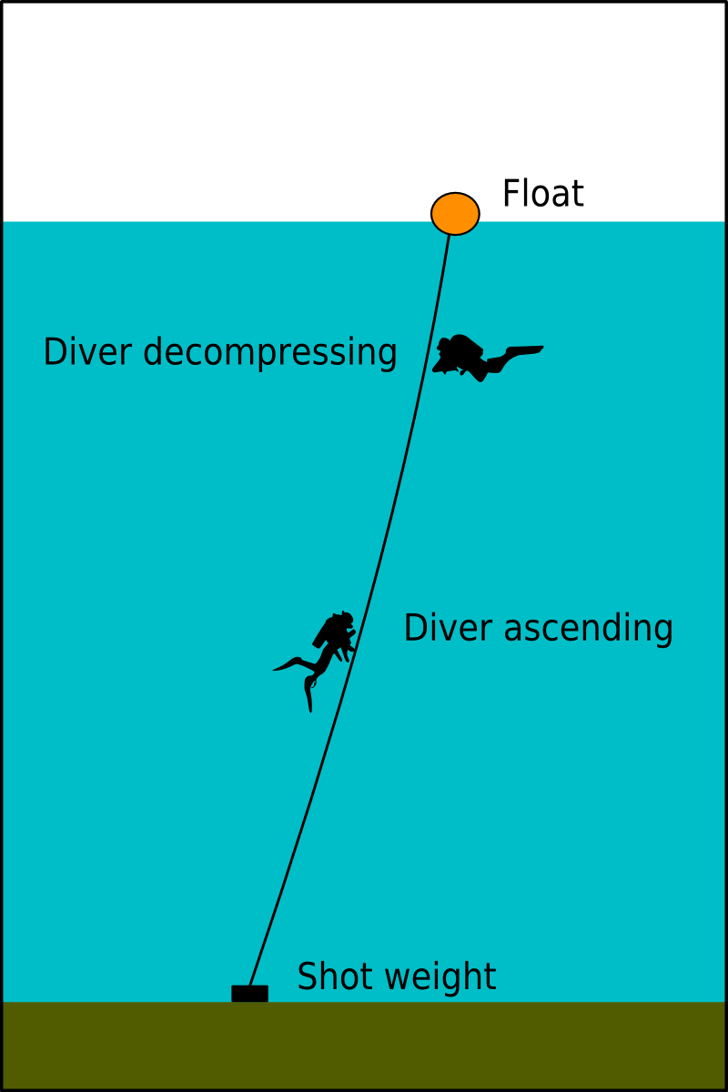 Diver ascending and decompressin at basic shotline. English labels.